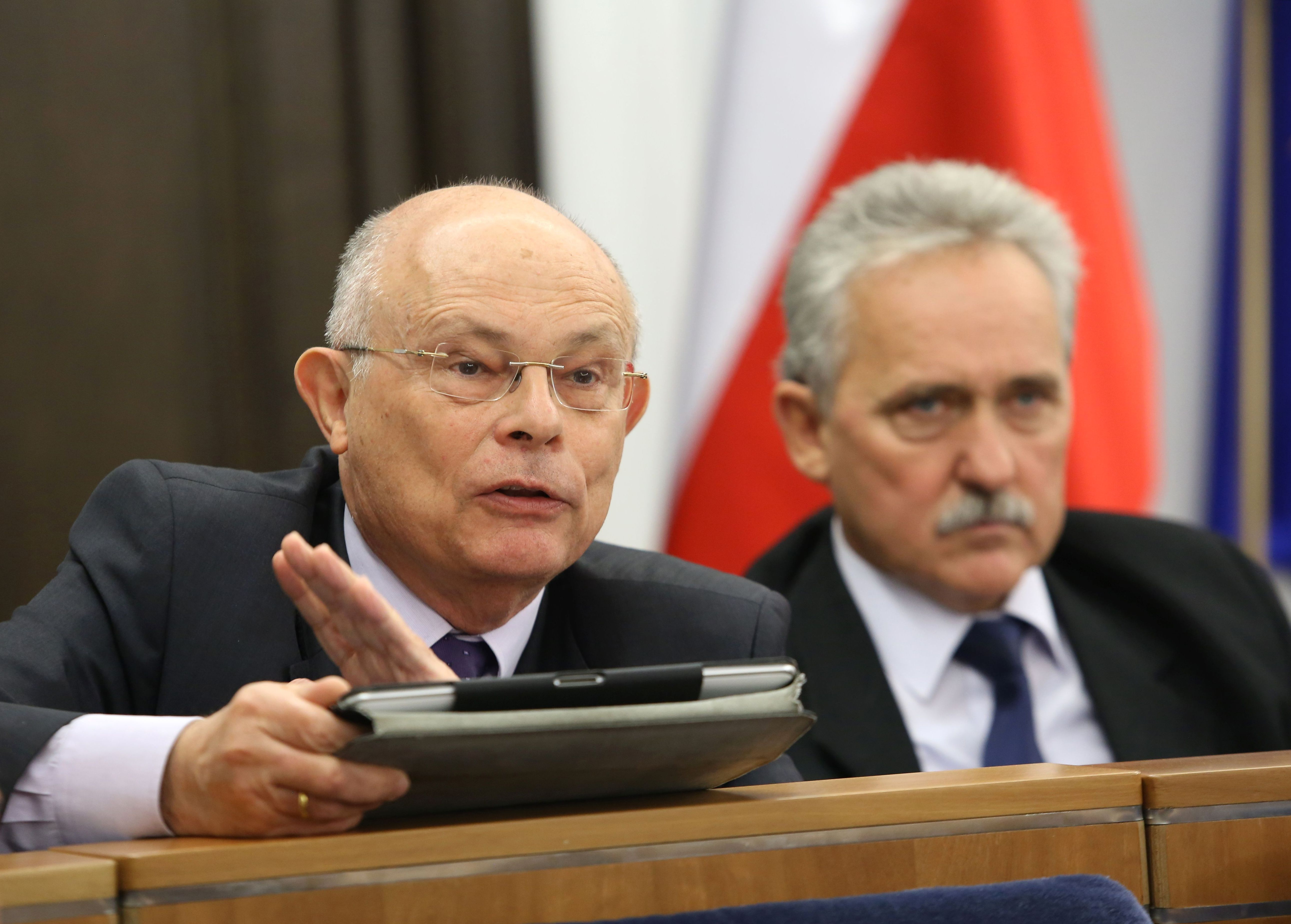 Senator Marek Borowski during 63rd sitting of the Polish Senate